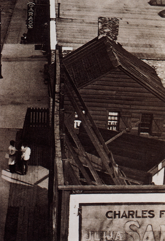 "Photography - New York", by Paul Strand